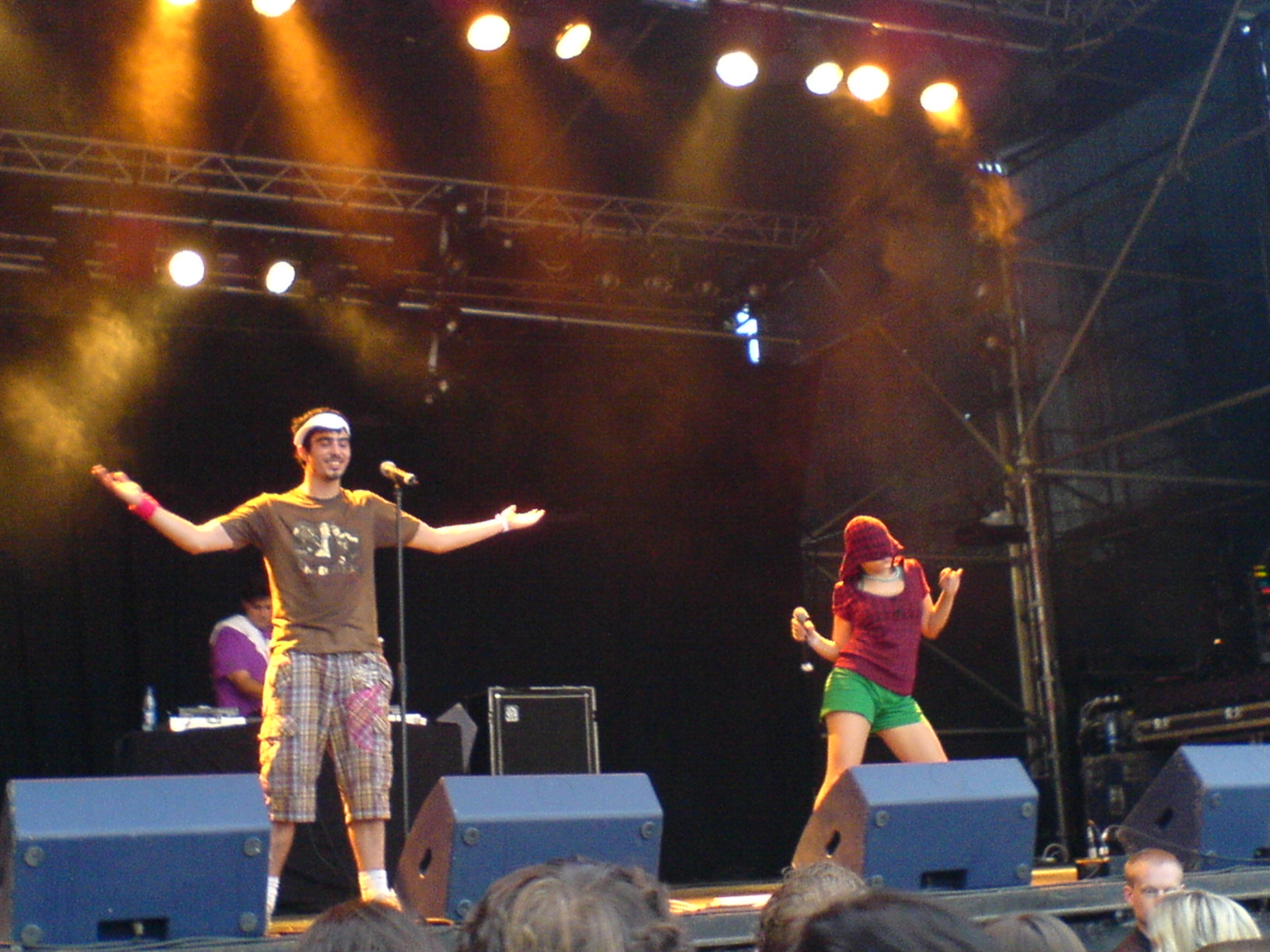 Brazilian funk group Bonde do Rolê at the Øya Festival, Oslo, Norway.